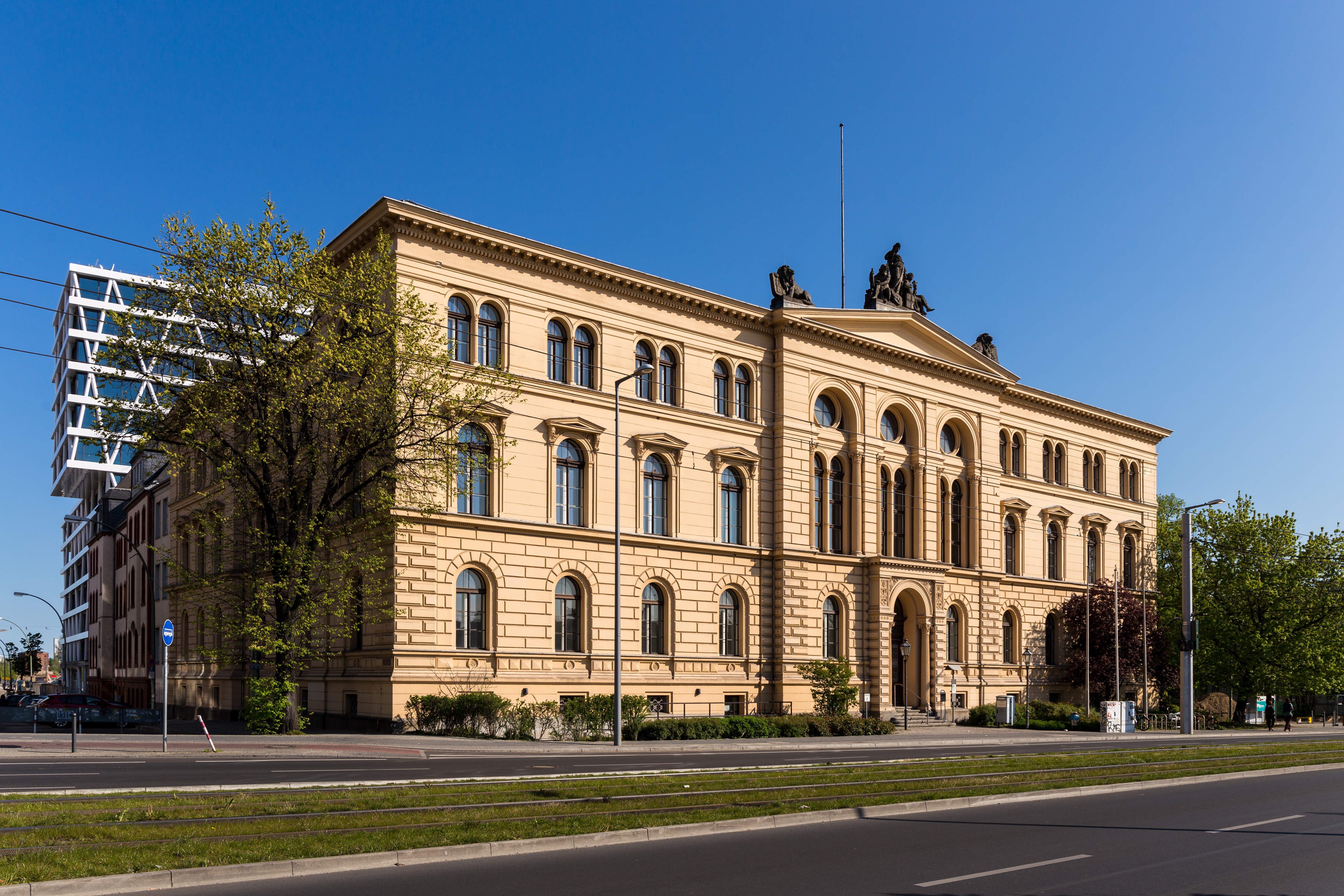 The Social Court Berlin. It is located at Invalidenstraße.